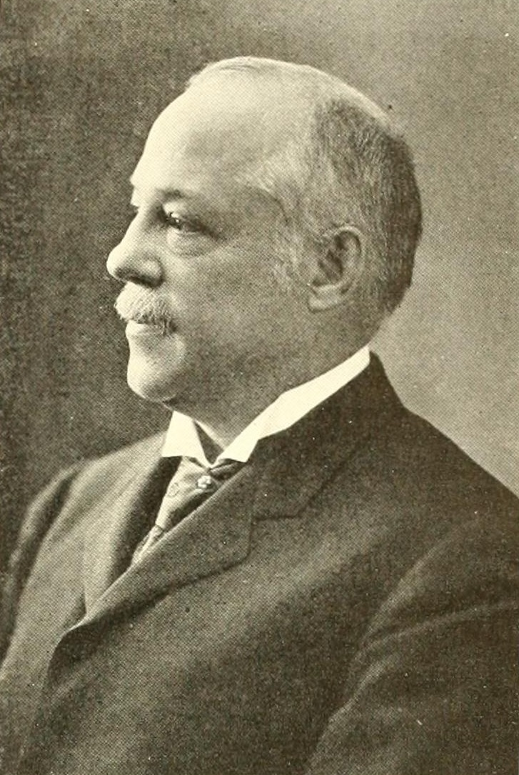 George D. McCreary (Pennsylvania Congressman)